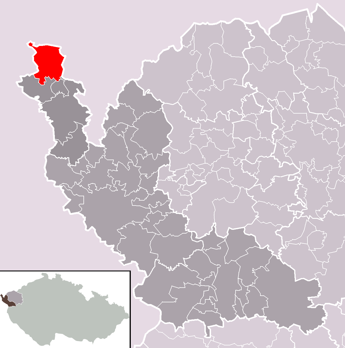 Location of Hranice town within Cheb District and administrative area of Aš as a Municipality with Extended Competence.